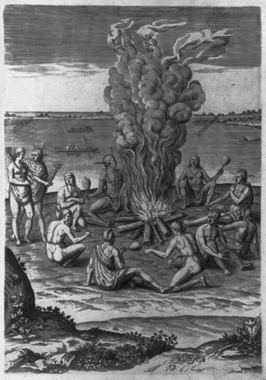 Group of Natives gathered around a campfire, some appear to be holding rattles; dugout canoes on river in background.